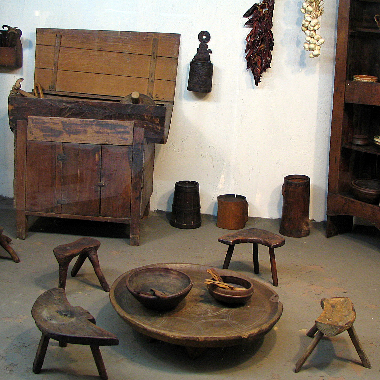 Sofra, Ethnographic Museum, Belgrade